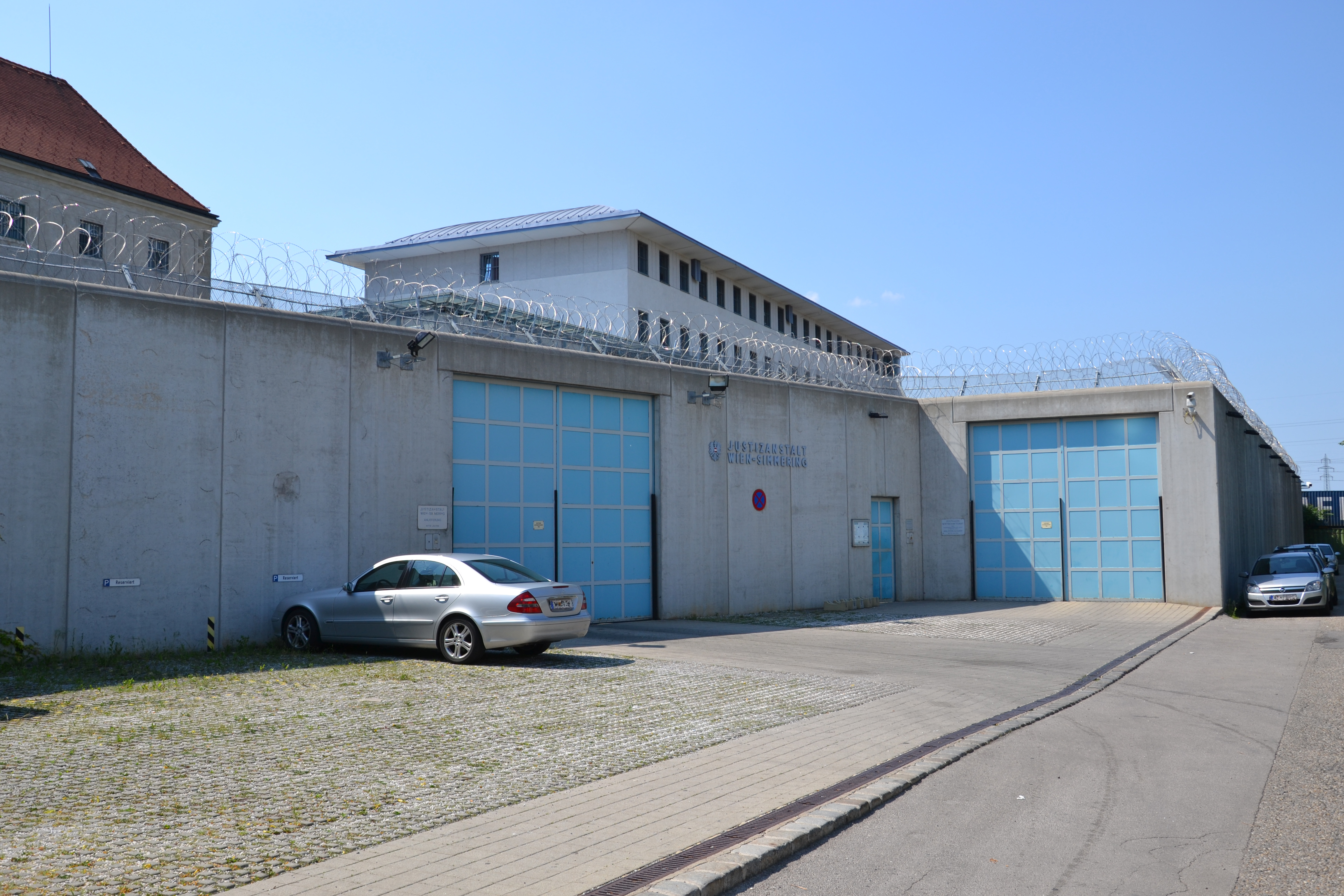 The Justizanstalt Simmering is a prison in austrias capital Vienna